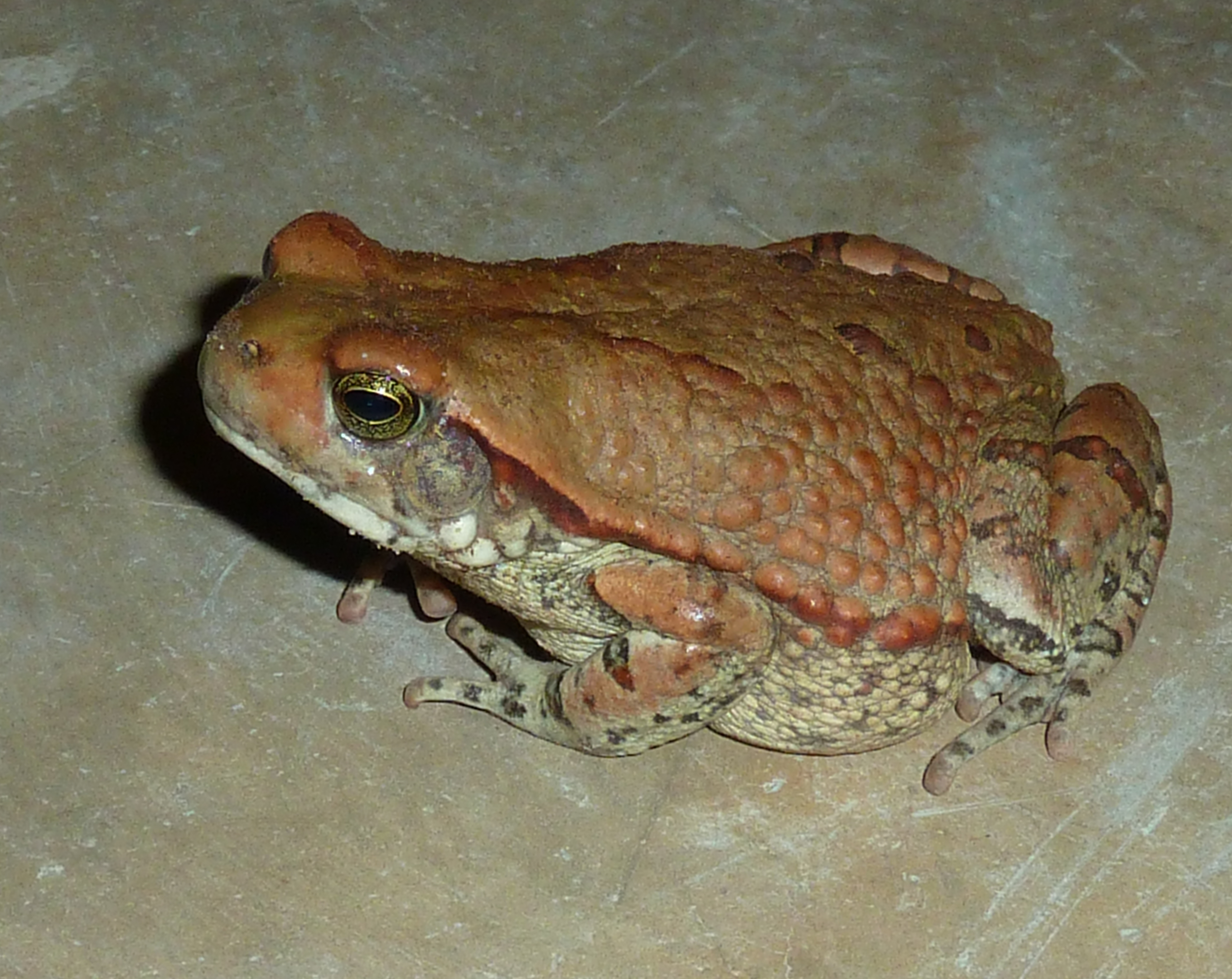 African red toad on the Springbok Flats, Limpopo, South Africa